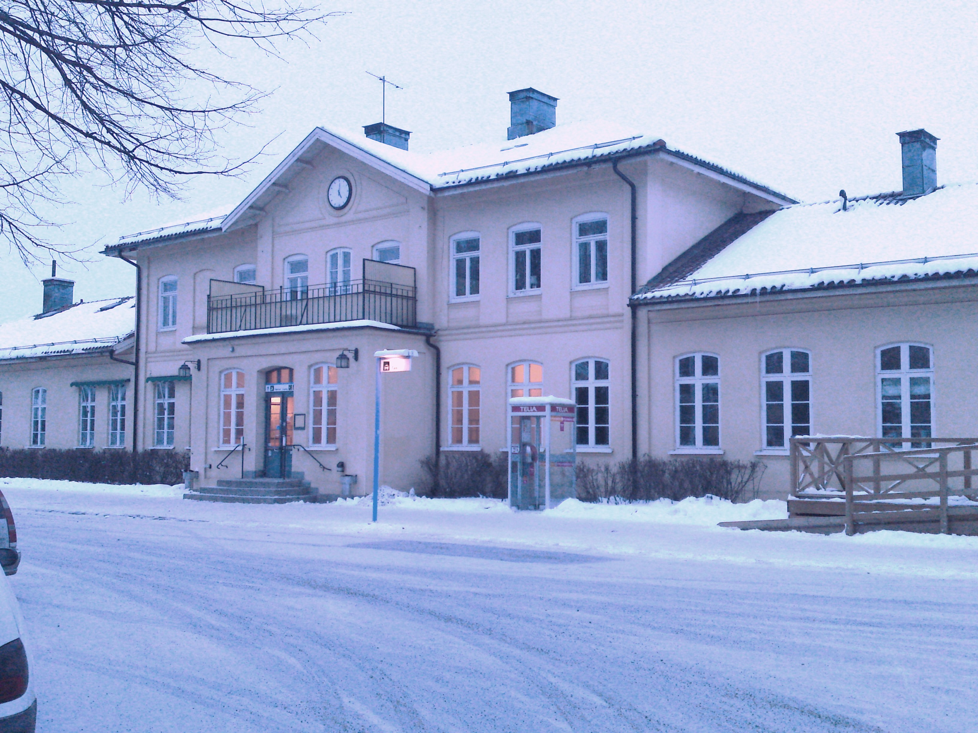 Sala railway station seen from the station square in February